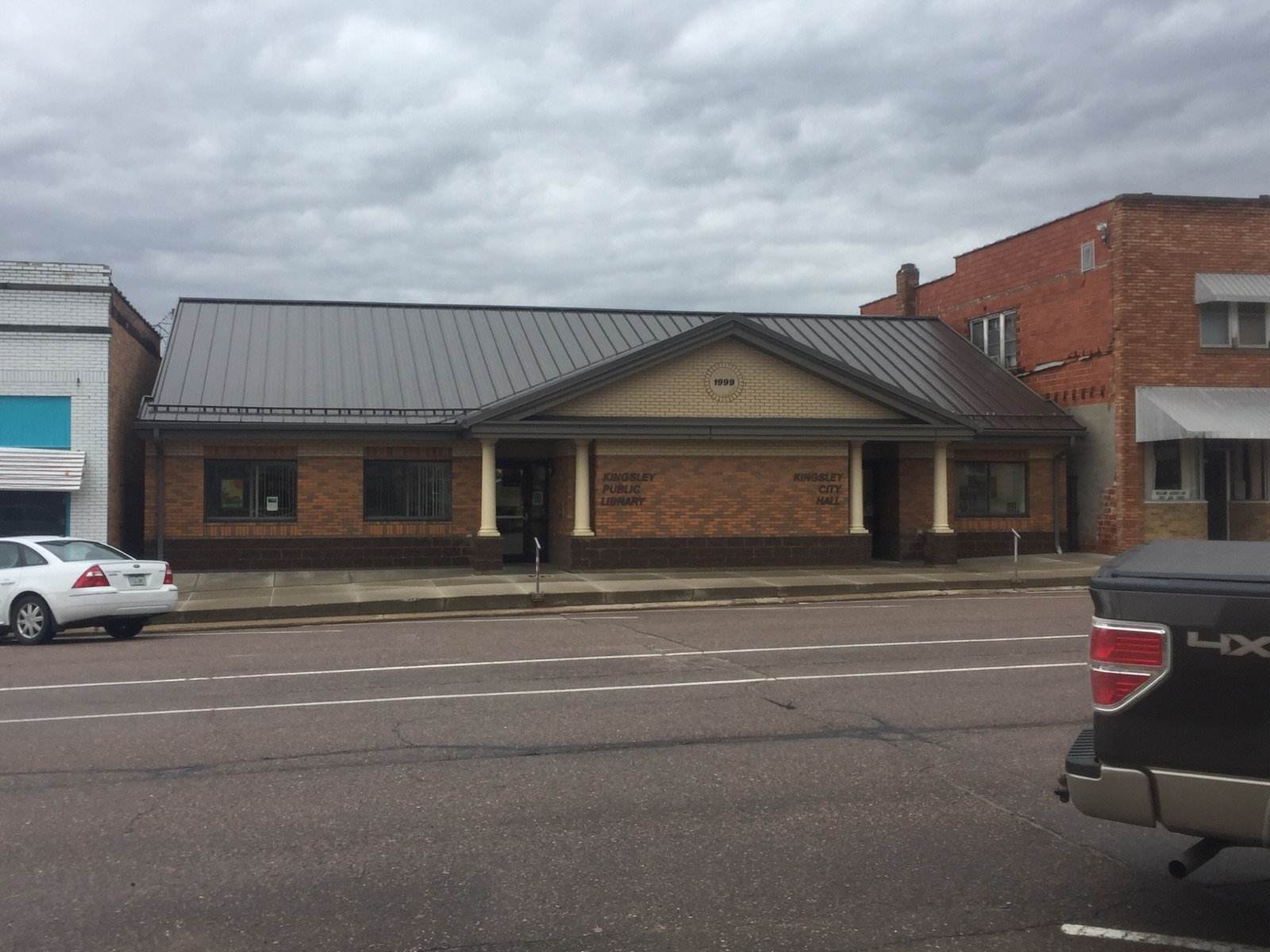 A picture of Kingsley, Iowa's public library/city hall combination.